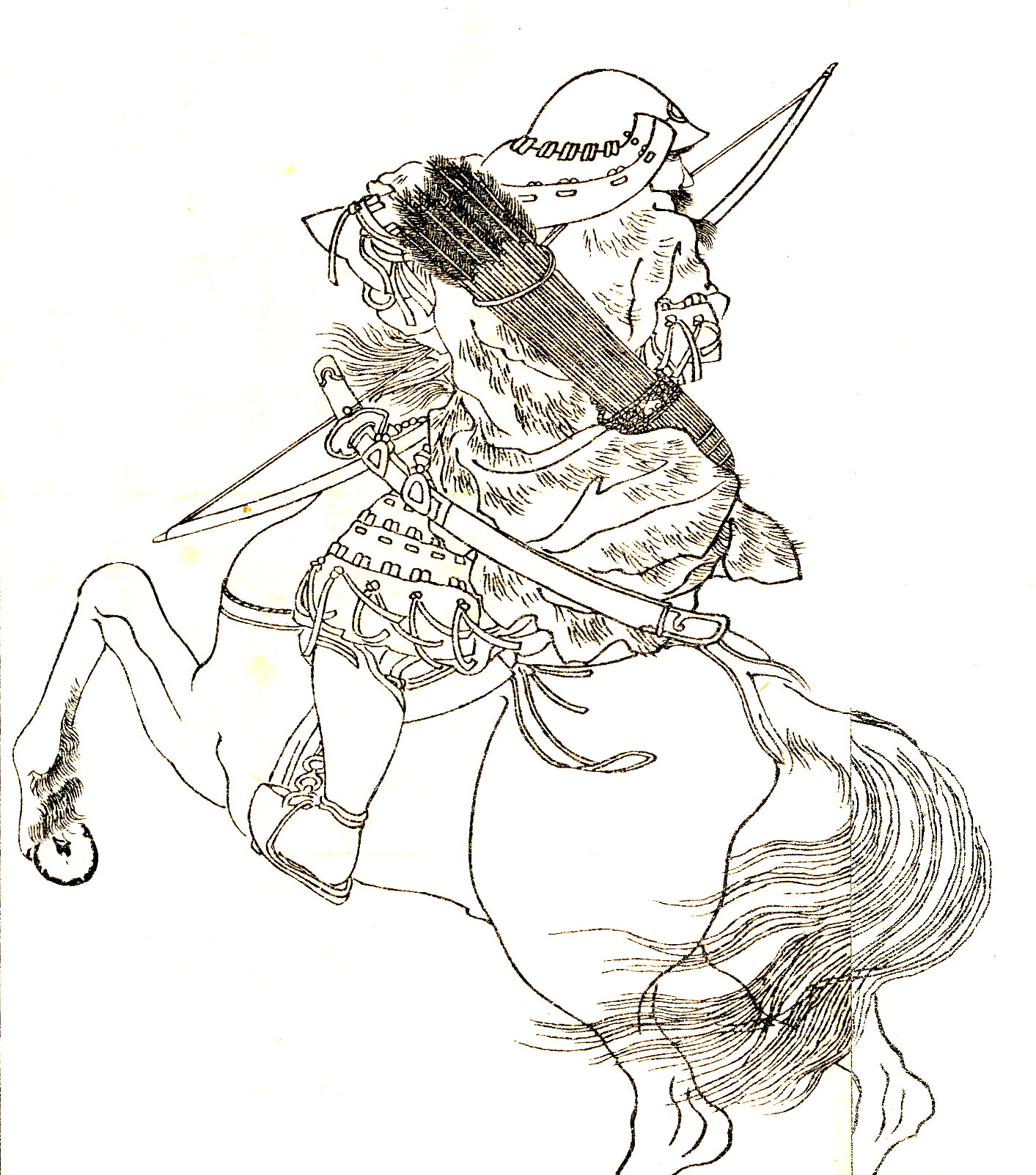 Murakuni no Oyori（村國男依） was a Japanese figure in Asuka period.